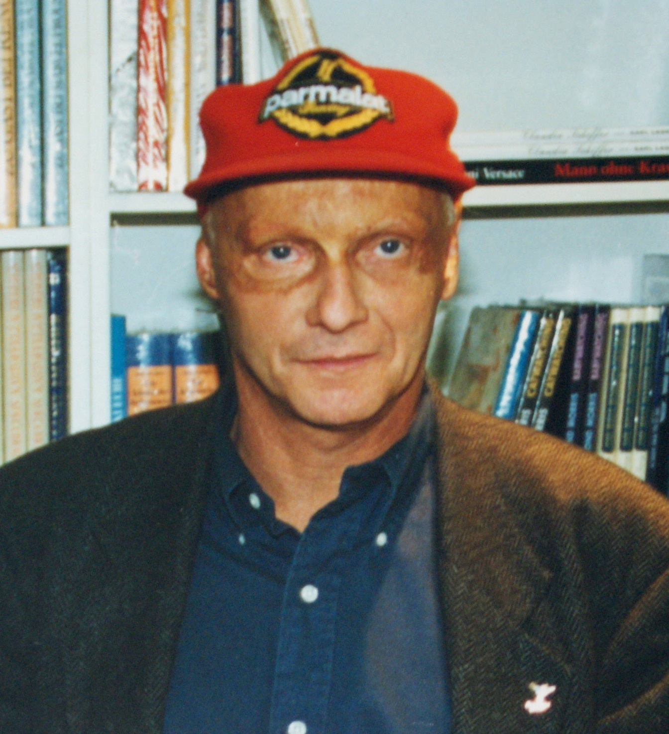 Niki Lauda presenting his book "The Third Life" at 1996 Frankfurt Fair.